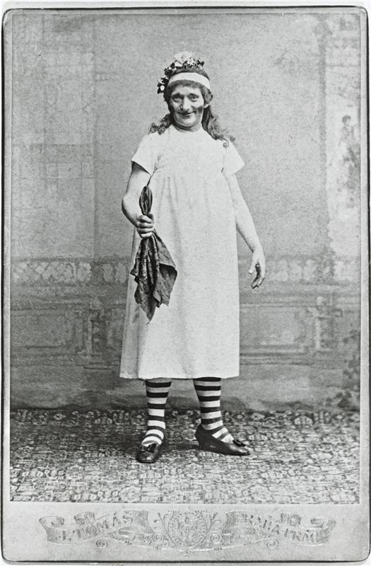 Czech actor Jindřich Mošna (actor of National Theatre in Prague) as Thisbe in A Midsummer Night's Dream